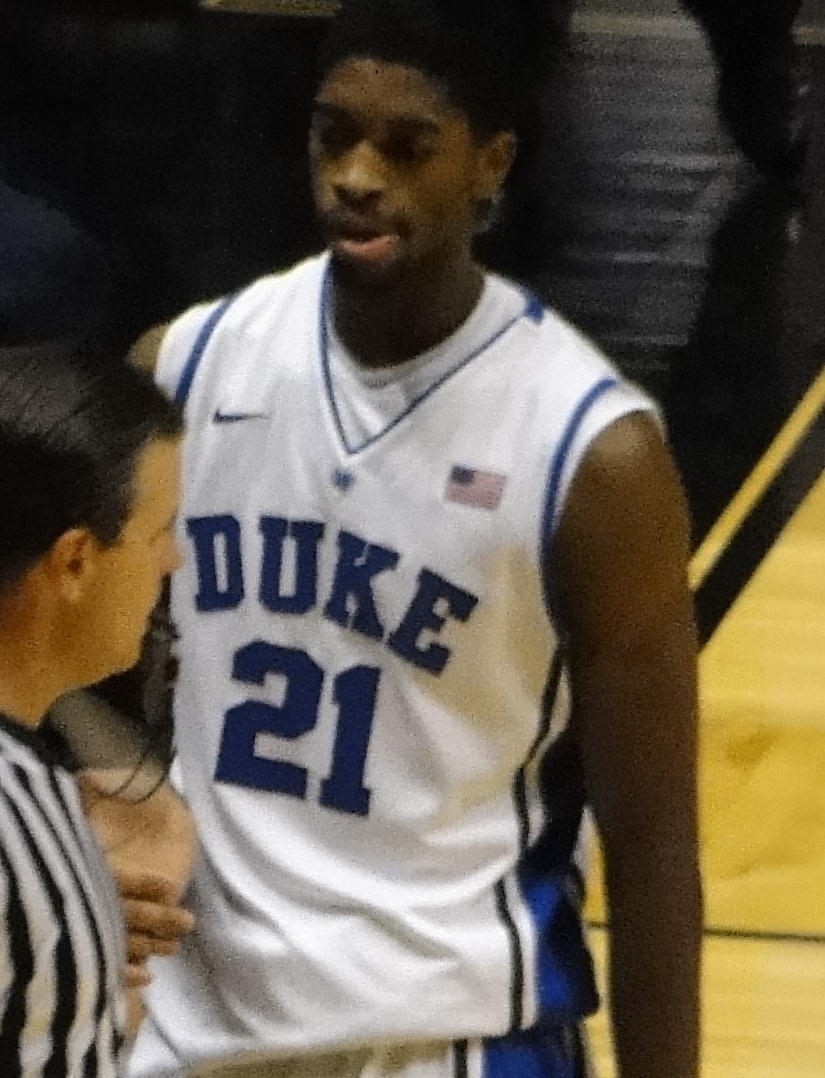 Amile Jefferson (21) for Duke